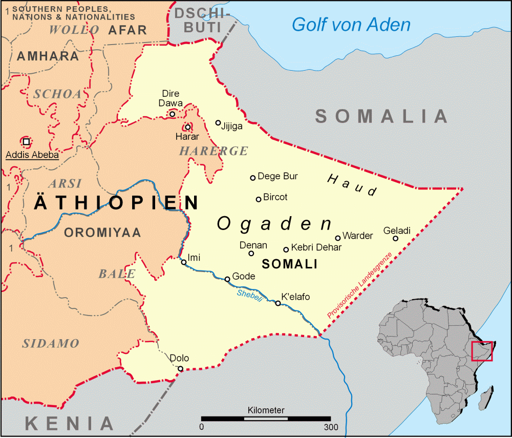 Map of Ethiopia (in German language) with the Somali region, Ogaden and the Haud – the Provinces prior to 1995 in grey, the contemporary regions in red